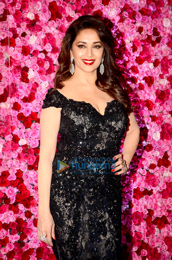 Madhuri Dixit celebrities grace Lux Golden Rose Awards 2016 in Mumbai